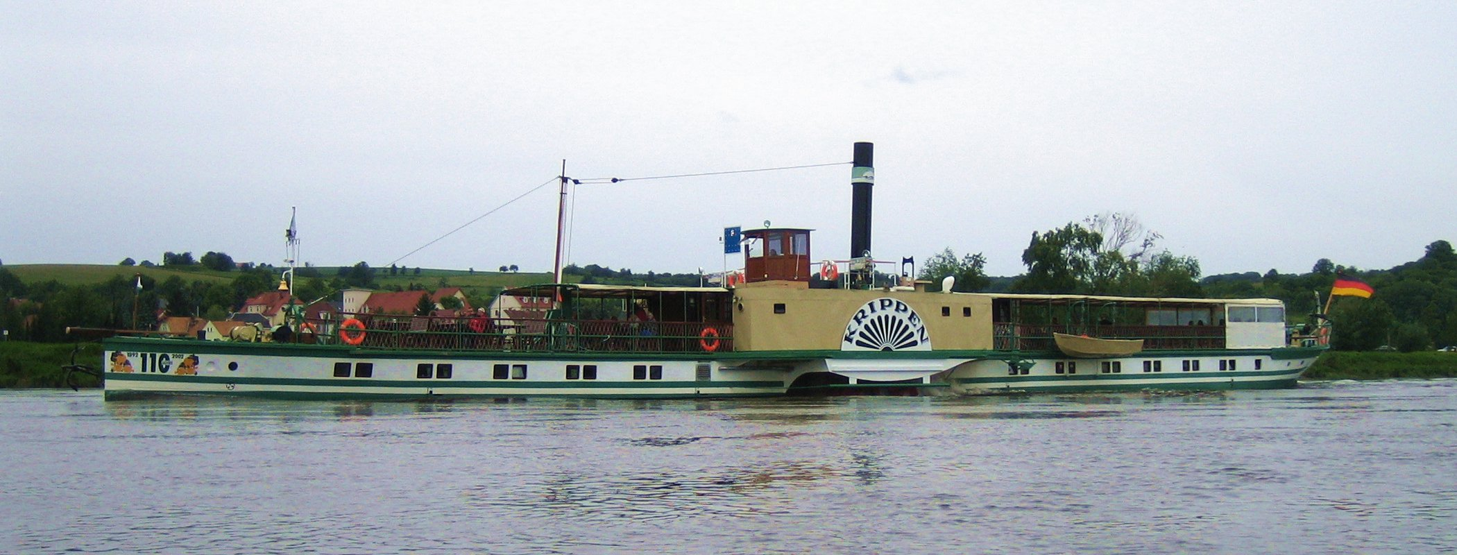 Paddle steamer PD Krippen of the Weiße Flotte (White Fleet) on the Elbe at Dresden-Niederwartha